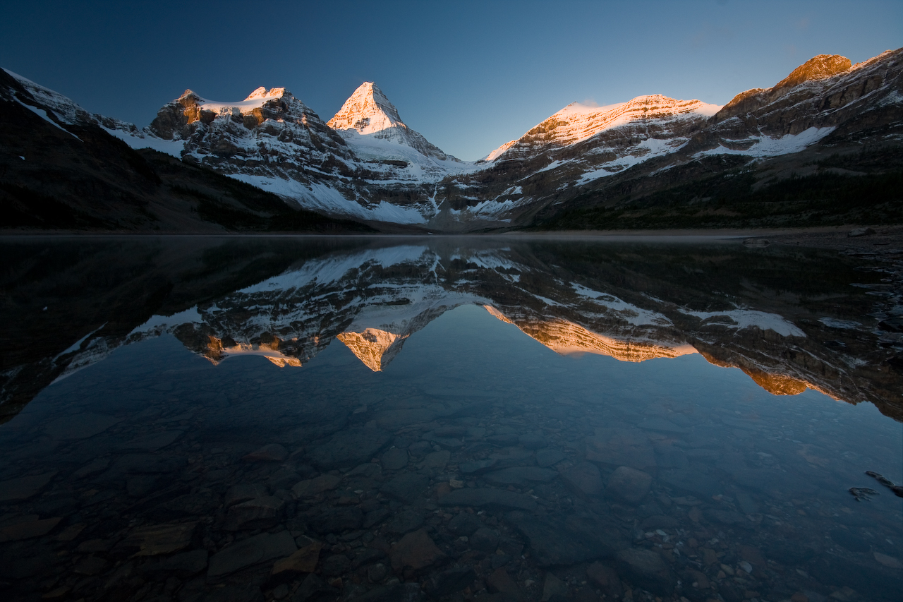 Reflections at Mount Assiniboine, located at the border between Alberta and British Columbia, Canada.